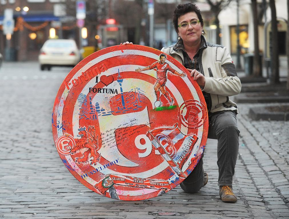 Silvia Klippert and "Fortuna-Art"